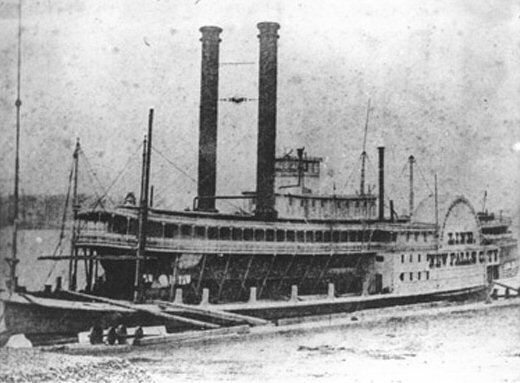 Paddle steamer New Falls City